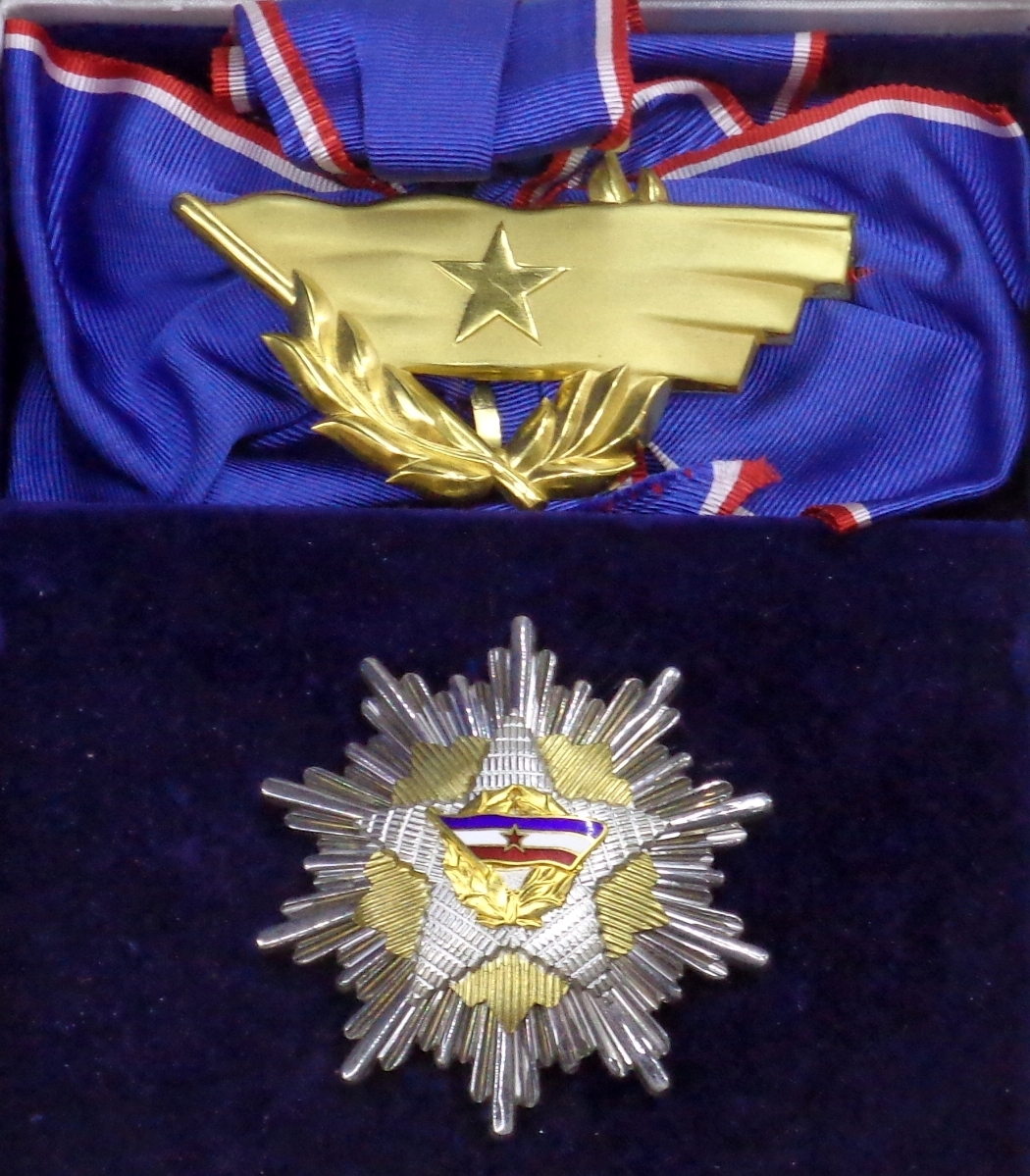 Order of the Yugoslav Flag, insignias of 1st class. Yugoslavia. The exhibition of the Tallinn Museum of Orders of Knighthood, Estonia.